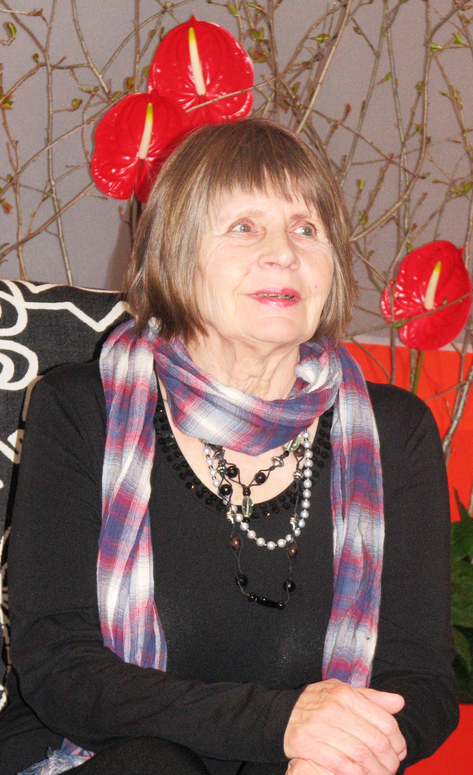 Reet Krusten on the Baltic Book Fair.